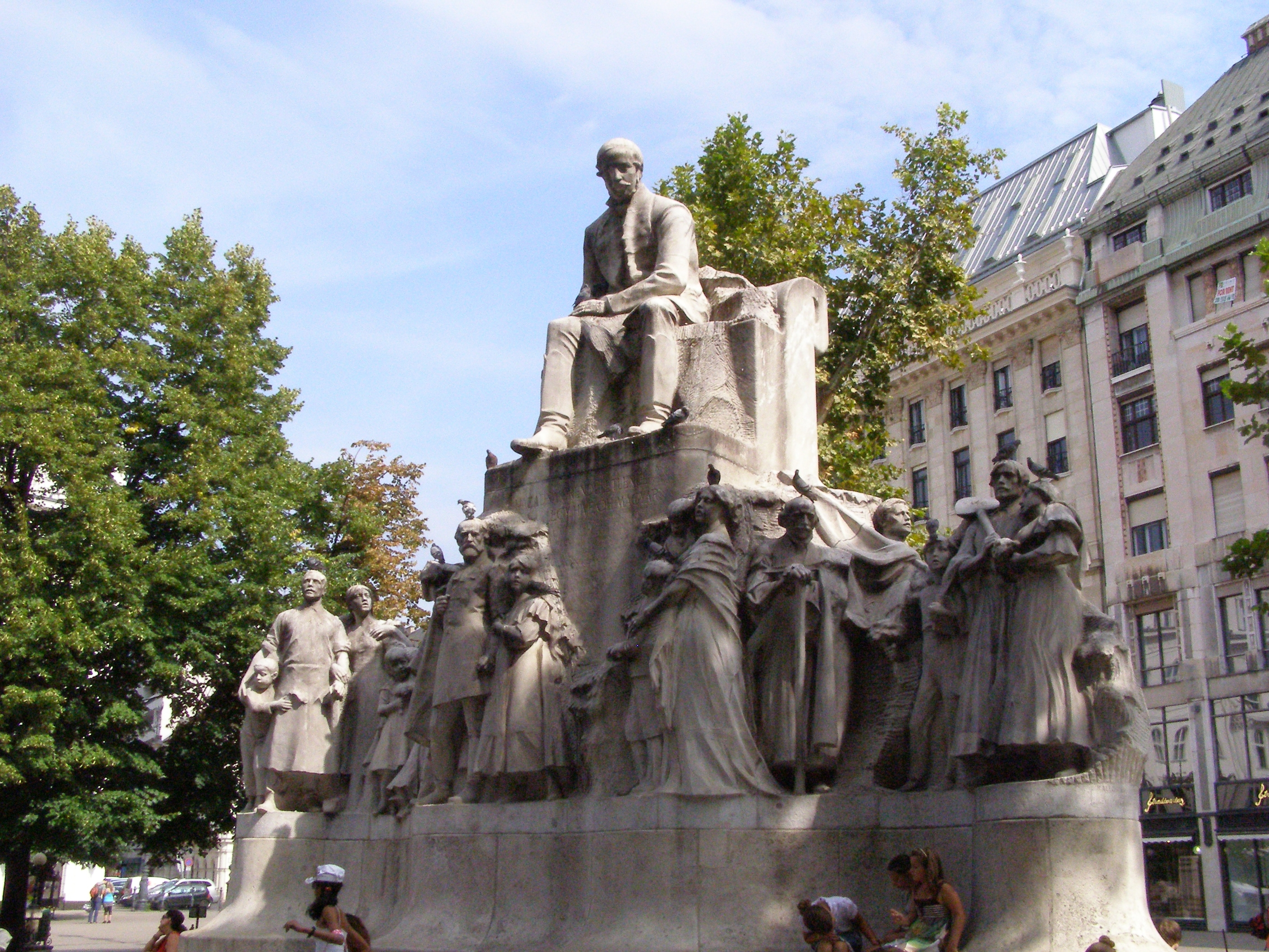 Budapest - monument of Mihály Vörösmarty; 5th district Belváros-Lipótváros